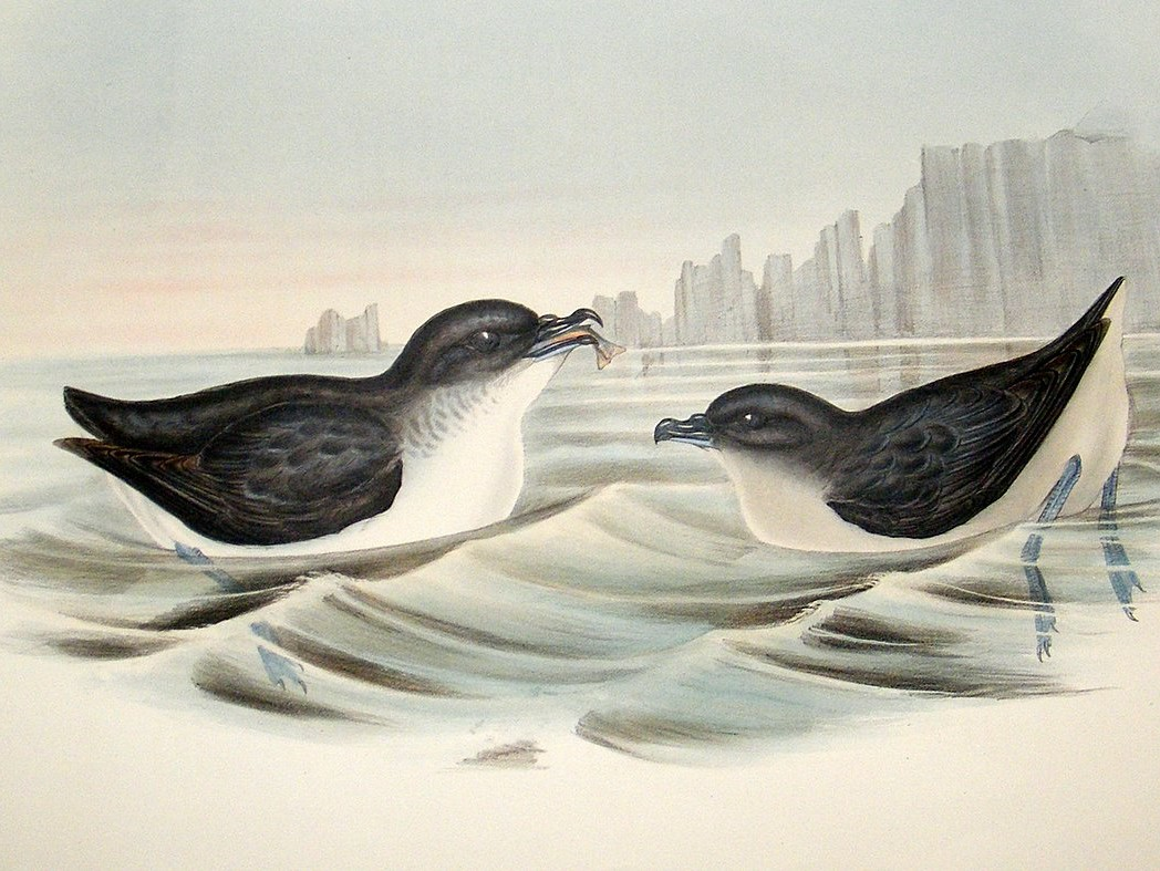 Pelecanoides urinatrix (Common Diving Petrel)